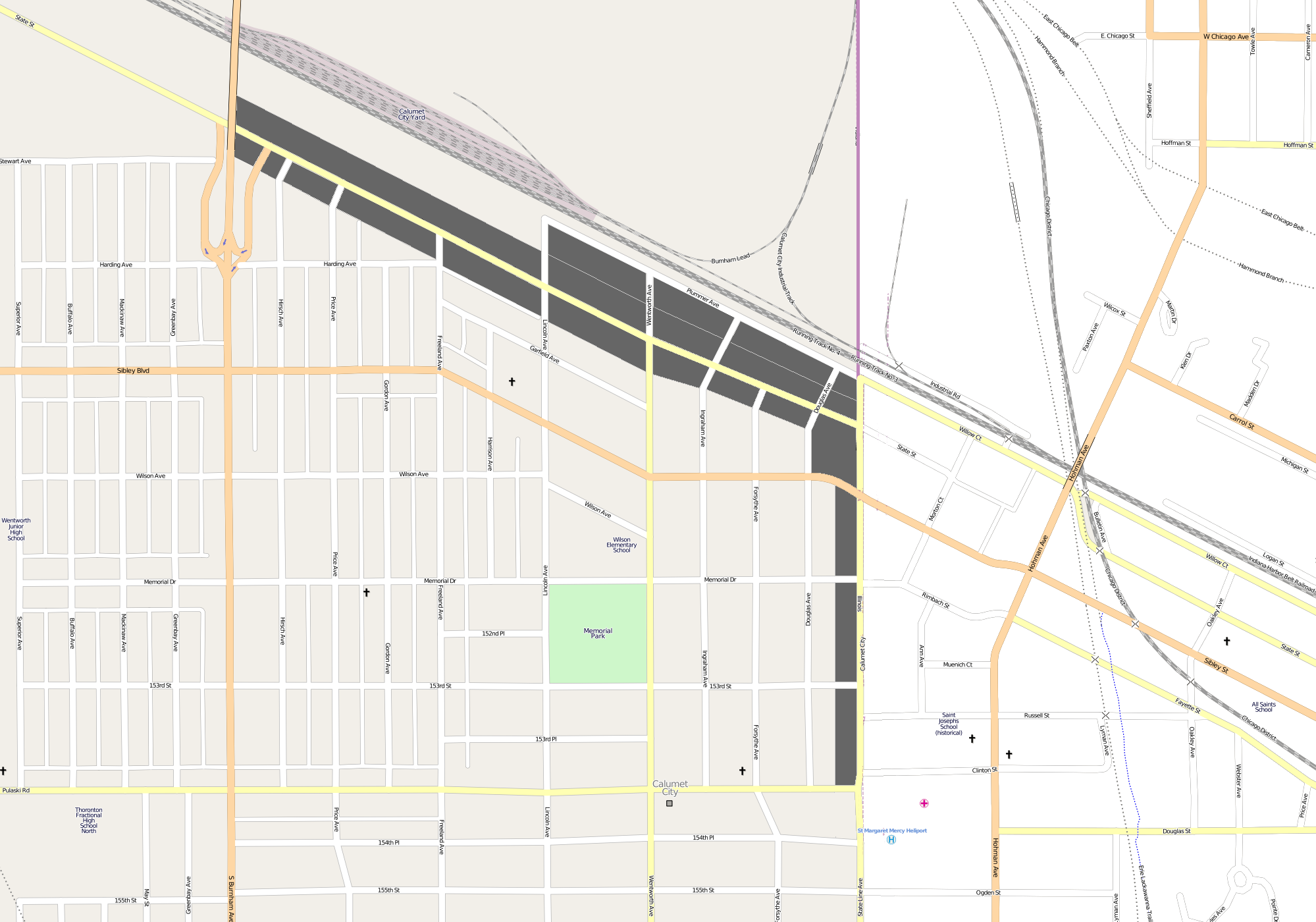 This map of Calumet City, IL was created from OpenStreetMap project data, collected by the community. This map may be incomplete, and may contain errors. Don't rely solely on it for navigation. Border coordinates41.63164-87.54485←↕→-87.5146841.61329